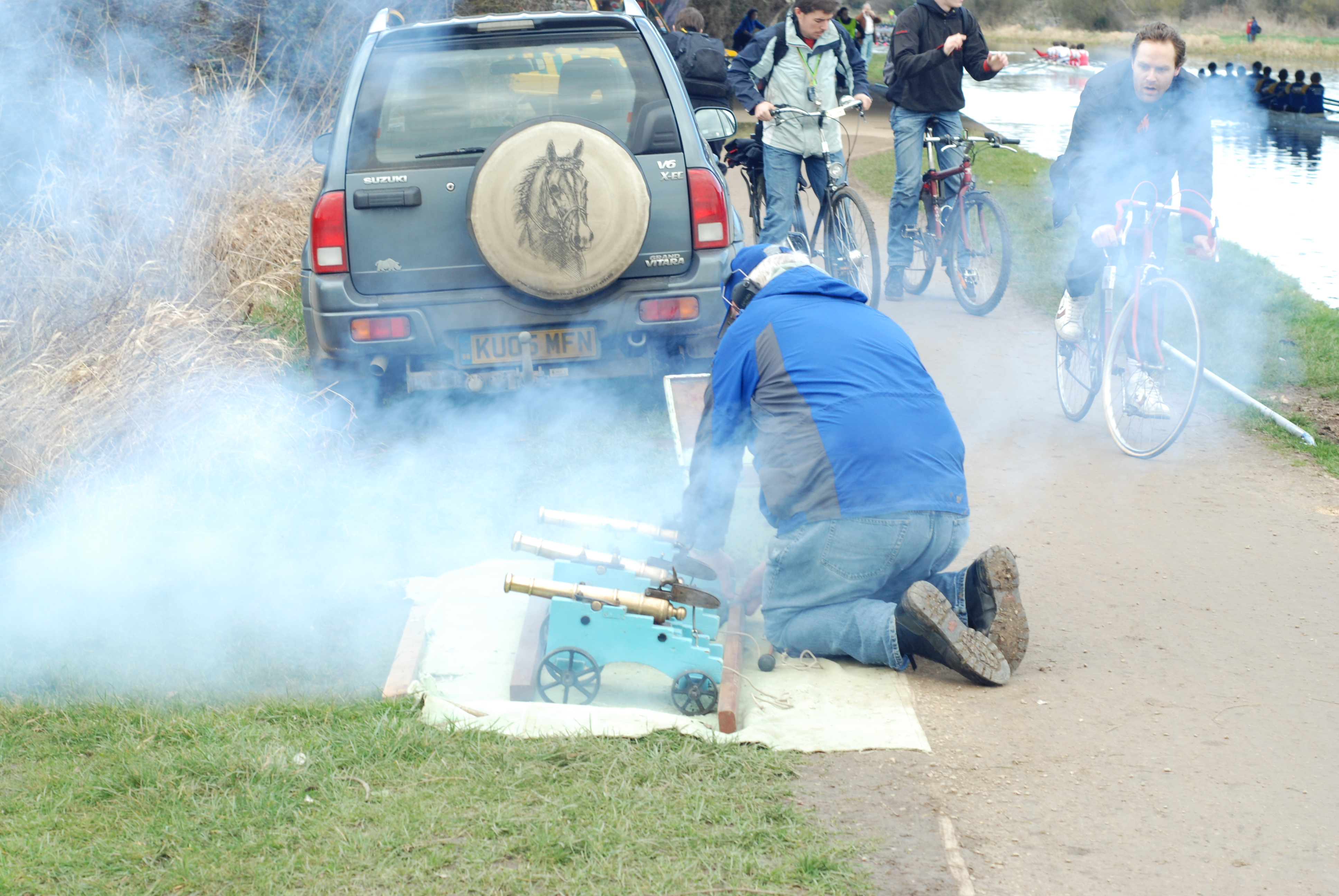 Start gun, lent bumps, lower mens division, saturday, 2009